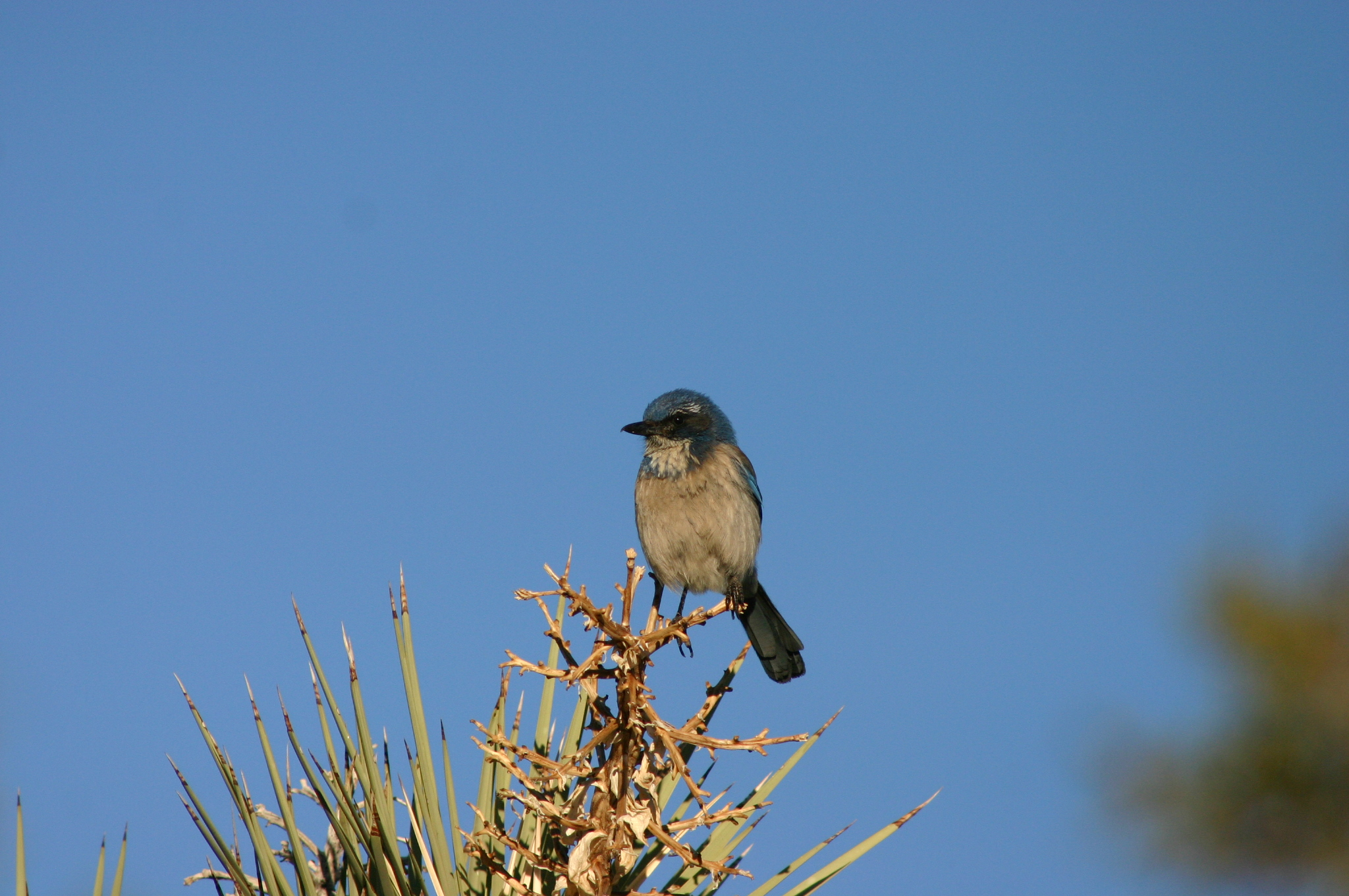 This photo shows a Western Scrub Jay perched at treetop. Binomial name: Aphelocoma californica.